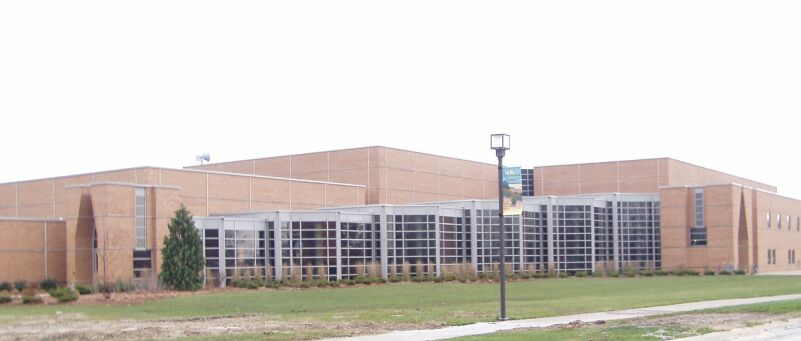 Bauer Museum of Art